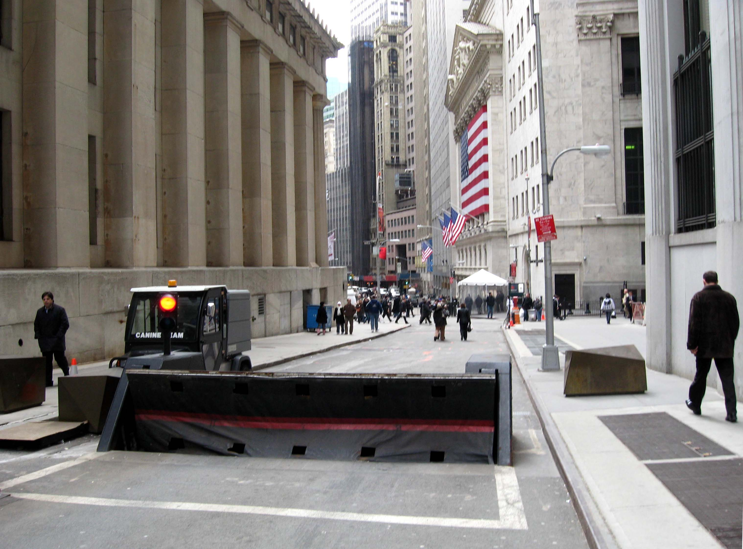 Looking south from Pine Street along Nassau Street (Manhattan) south end, towards Wall Street and Broad Street early Tuesday afternoon, early in springtime, blocked by a mechanized barrier installed in 2002. Federal Hall is on left; NYSE distant on right.